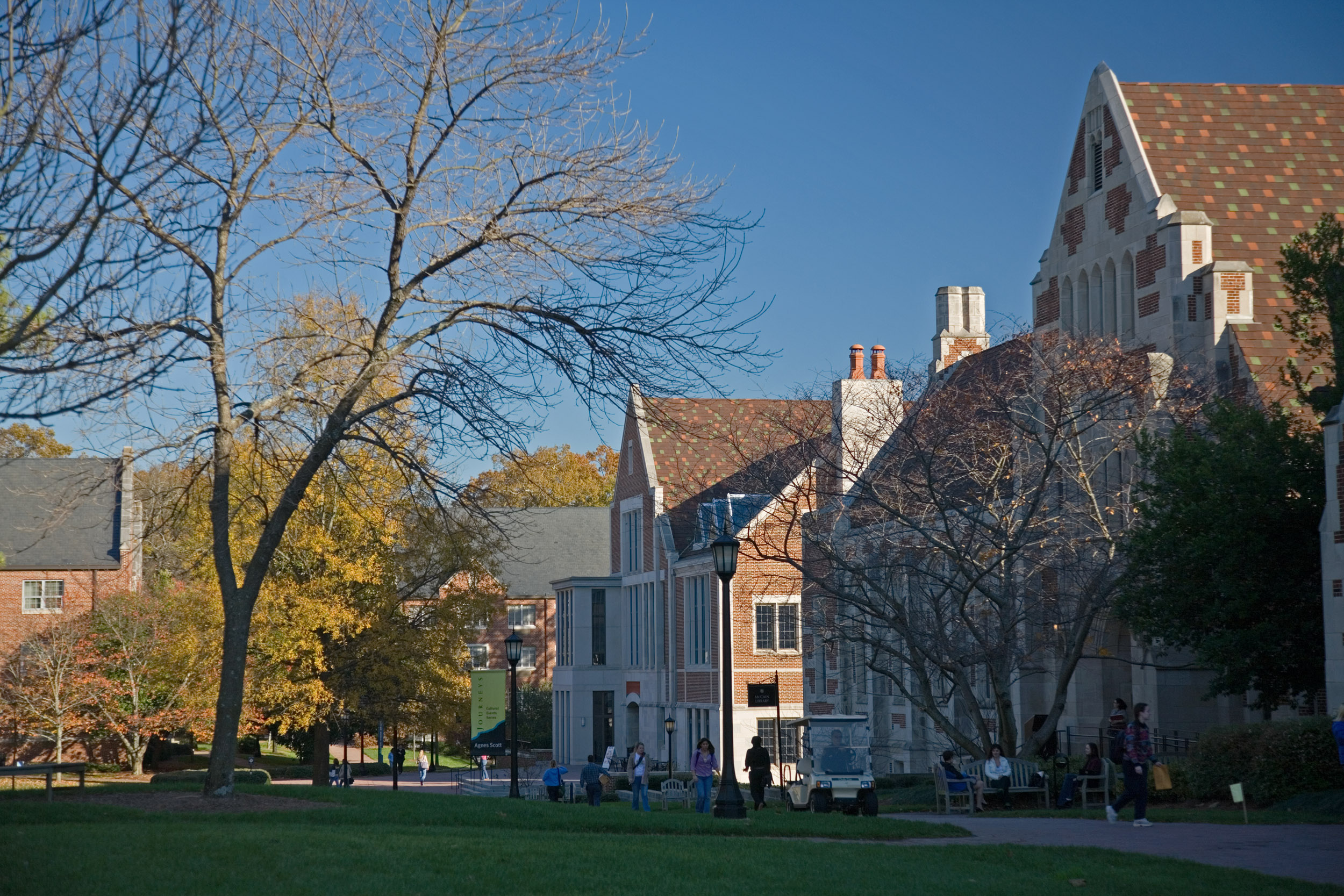 Looking across the quad at Agnes Scott College. Taken with a Canon 5D and 24-105mm f/4L IS lens.